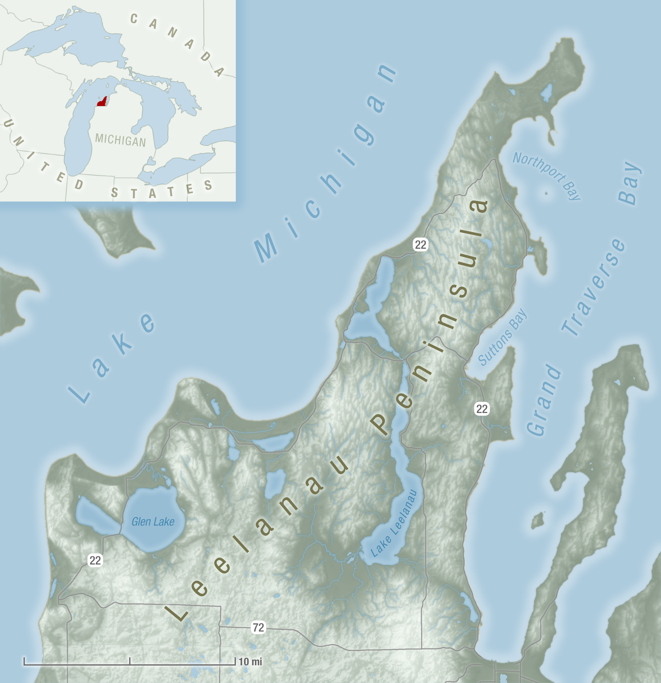 Projection: Michigan Georef Elevation, roads, water bodies: Michigan Geographic Data Library Inset linework: Natural Earth